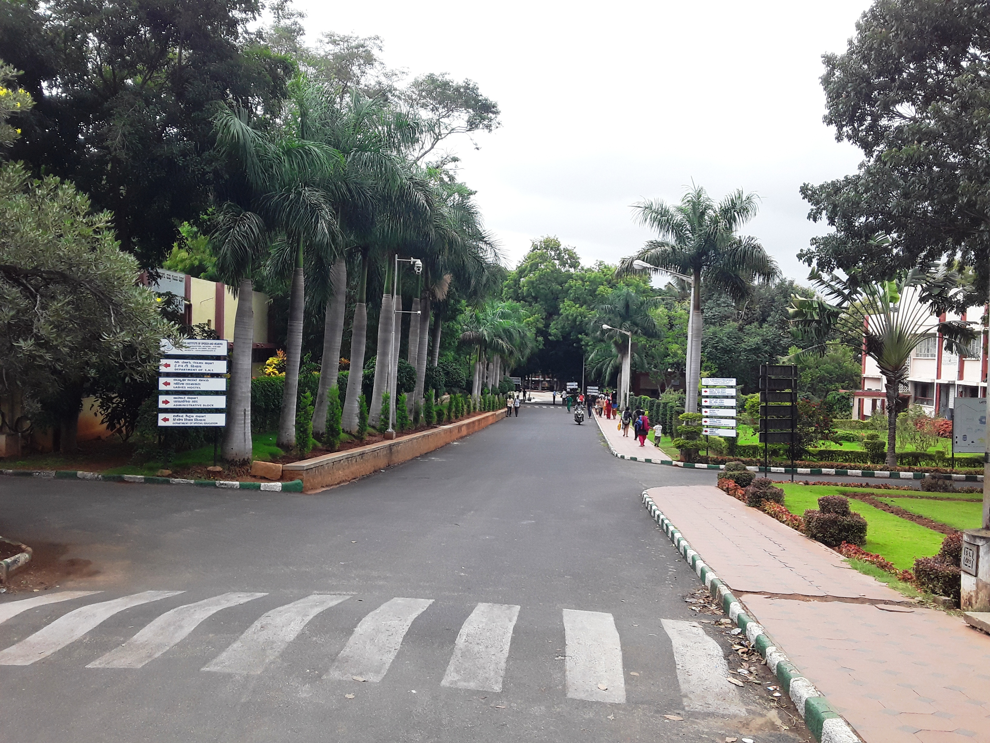 Karnataka province, India.